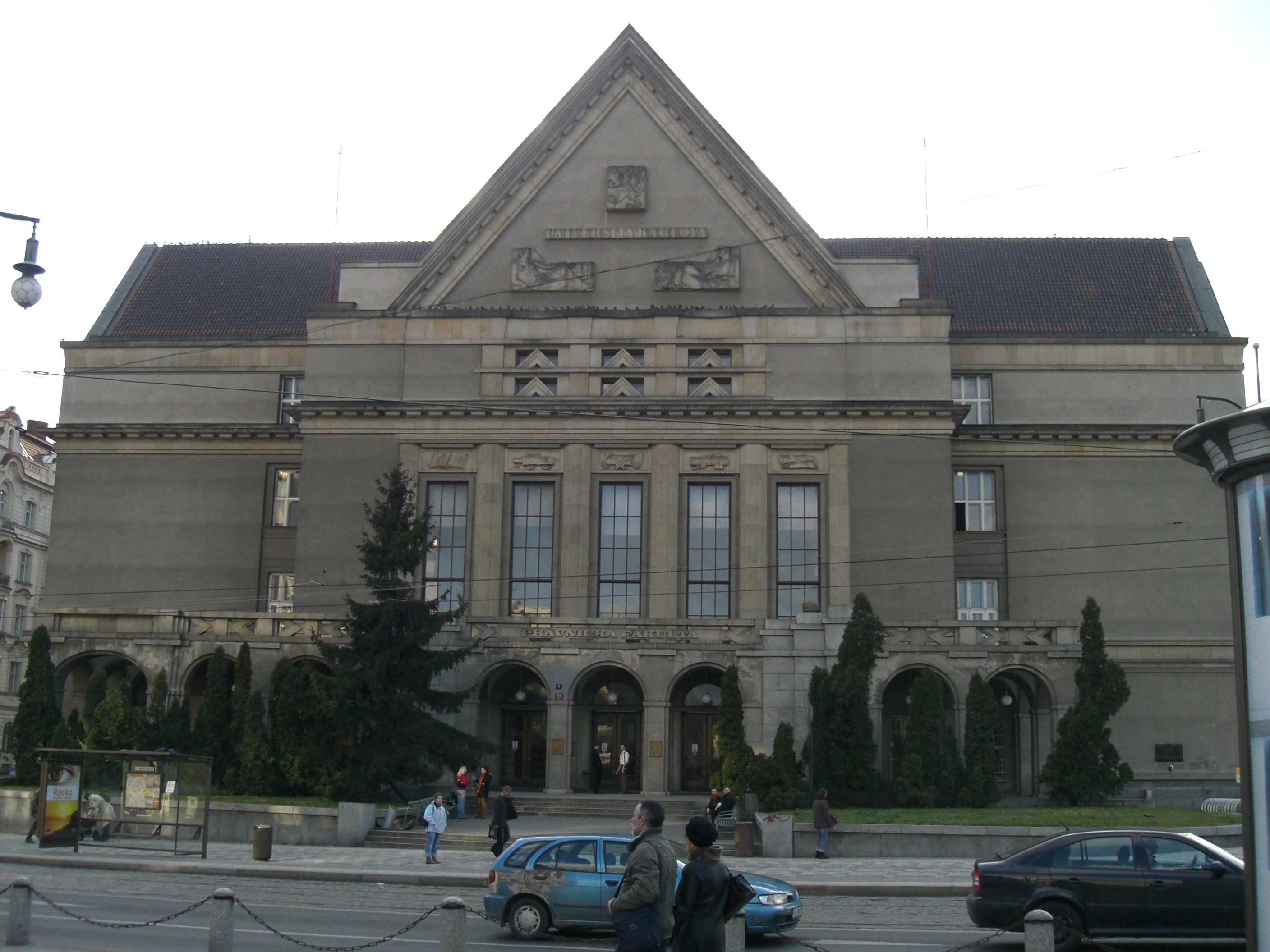 Law faculty of Charles university in Prague